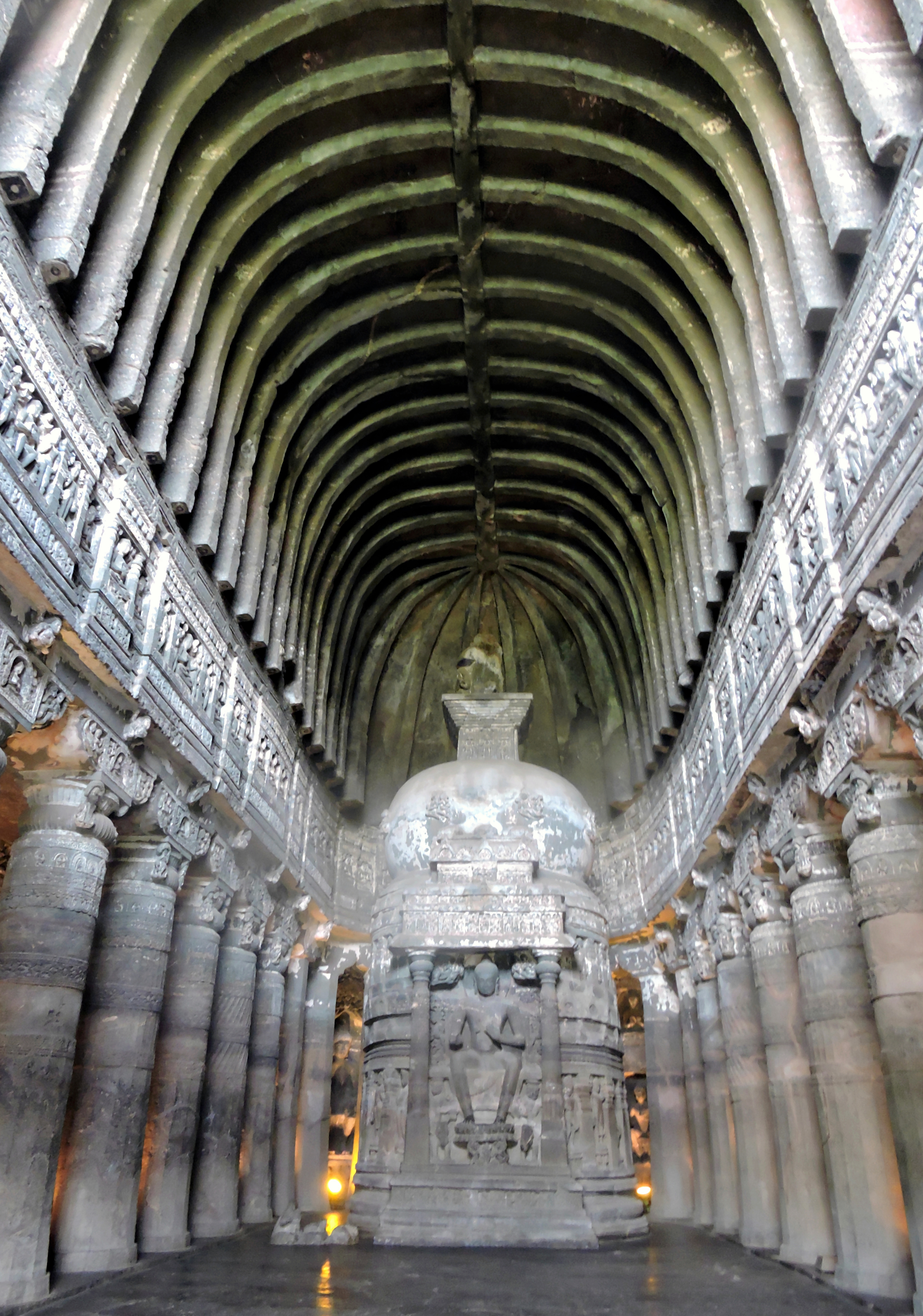 An inside view of Cave 26 of Ajanta with a huge stone carved sculpture of Lord Buddha sitting in mudra on asan in front of the Stupak at the symmetrical half line of a Mahayana prayer hall, chaitya, and ribbed arches roof on tap and a band between the column brackets and the roof is decorated with Relief panels of idols carved out of rock.